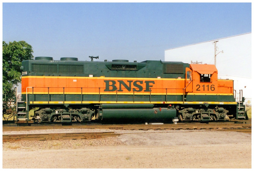 Burlington Northern Santa Fe #2116, EMD GP38AC